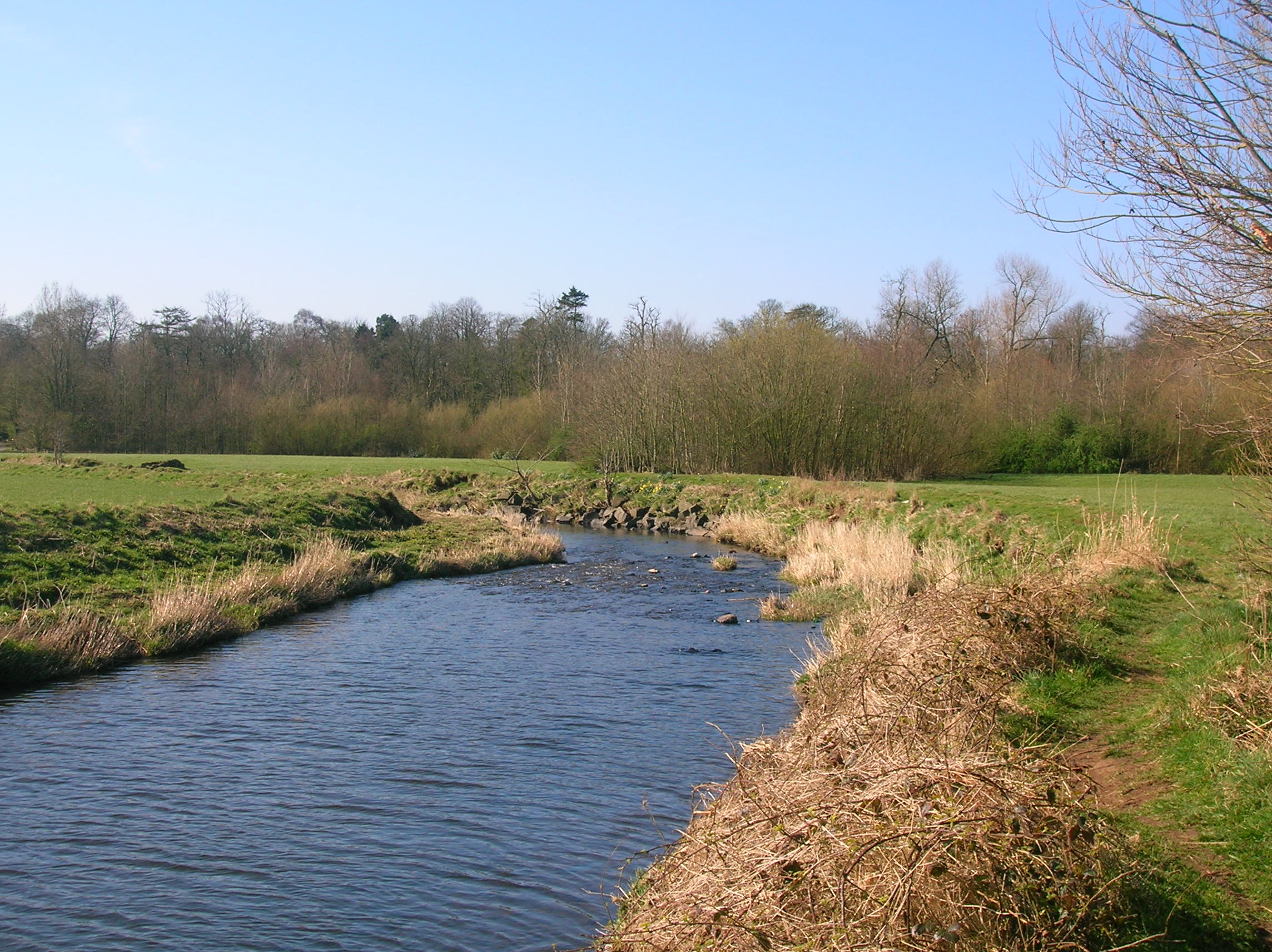 The Annick Water at Bourtreehill in North Ayrshire, Scotland. 2007.